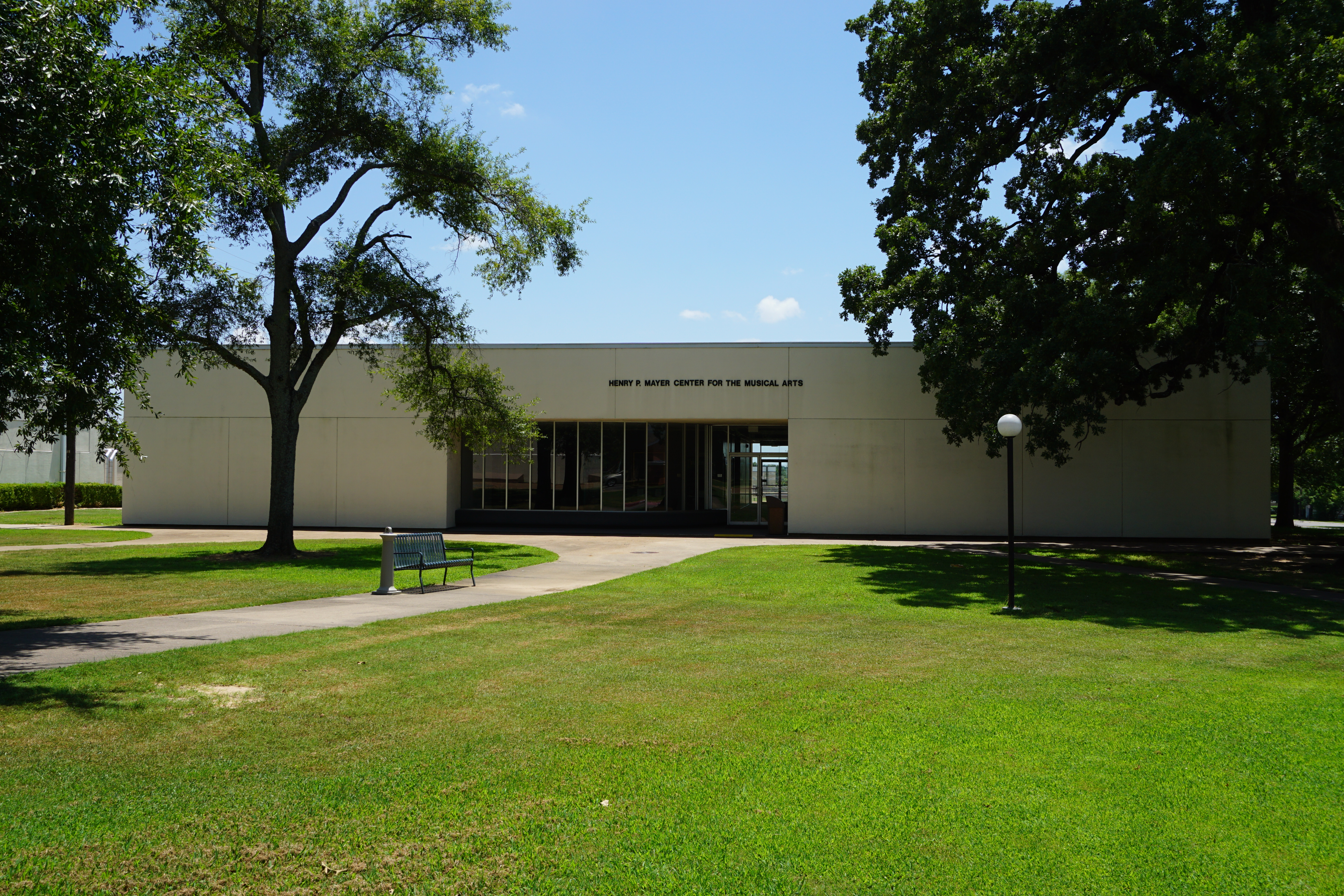 The Henry P. Mayer Center for the Musical Arts on the campus of Paris Junior College in Paris, Texas (United States).